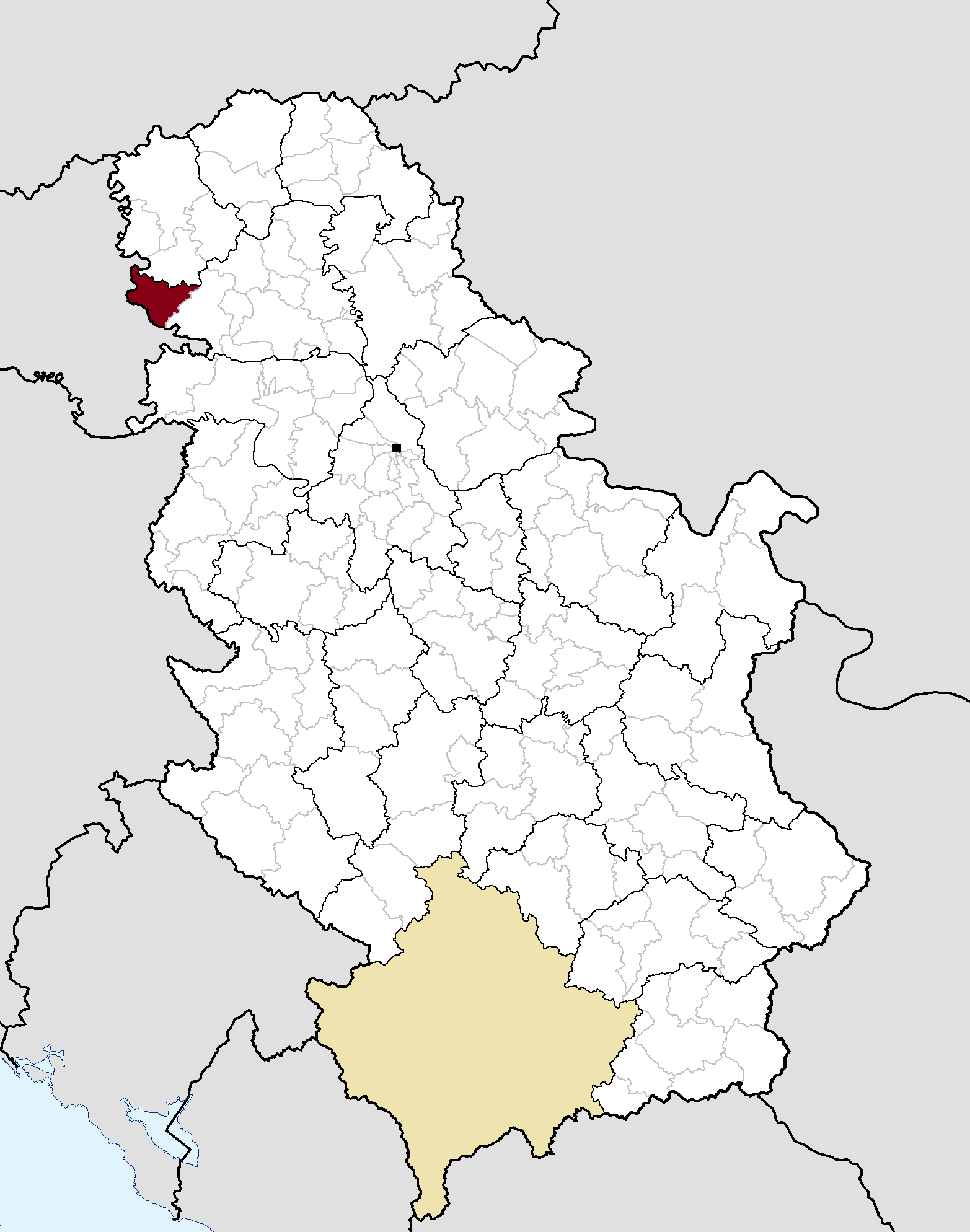 Municipal location in Serbia